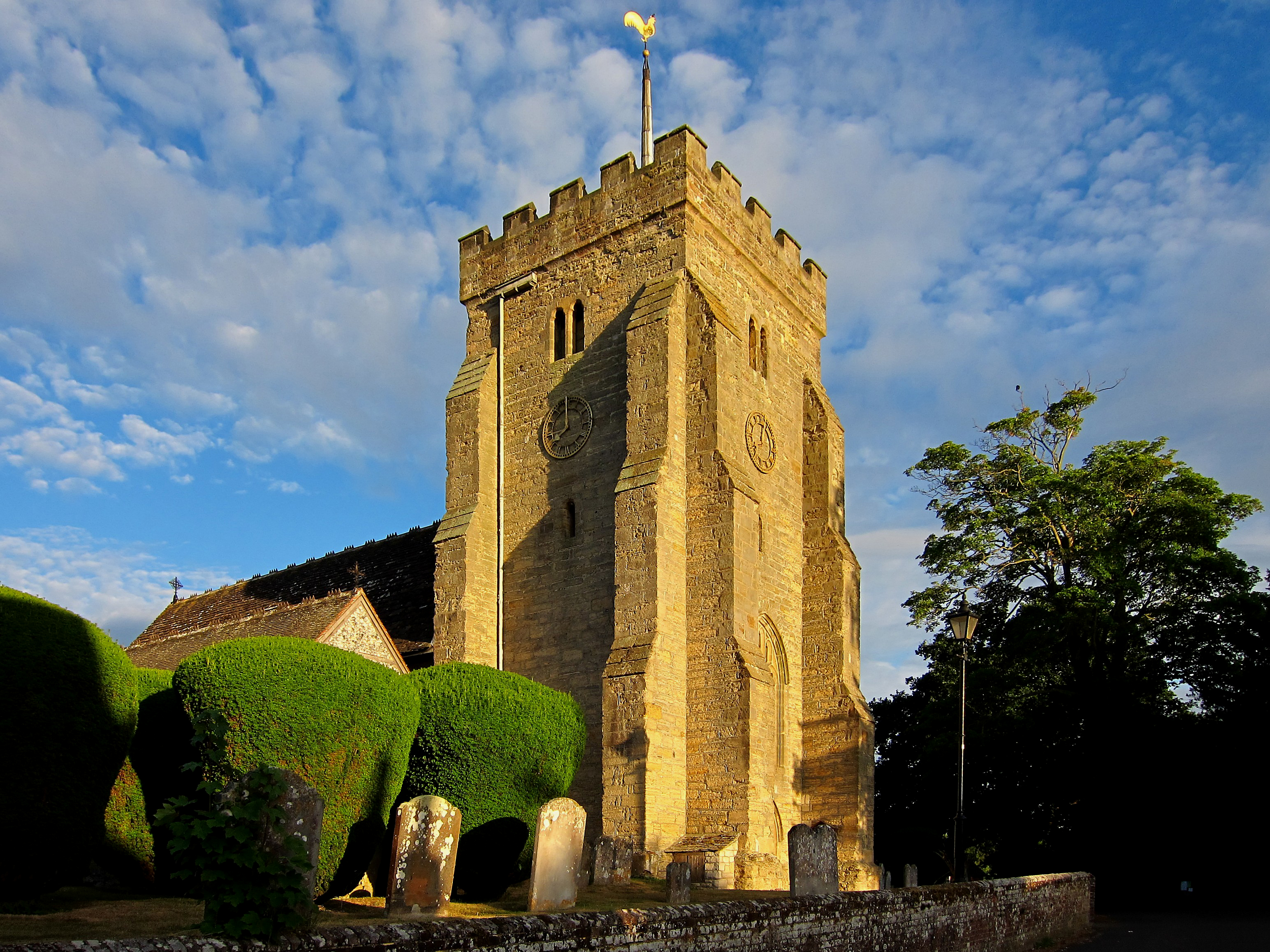 The Parish Church Of St Peter Wikidata has entry Q17532497 with data related to this item.